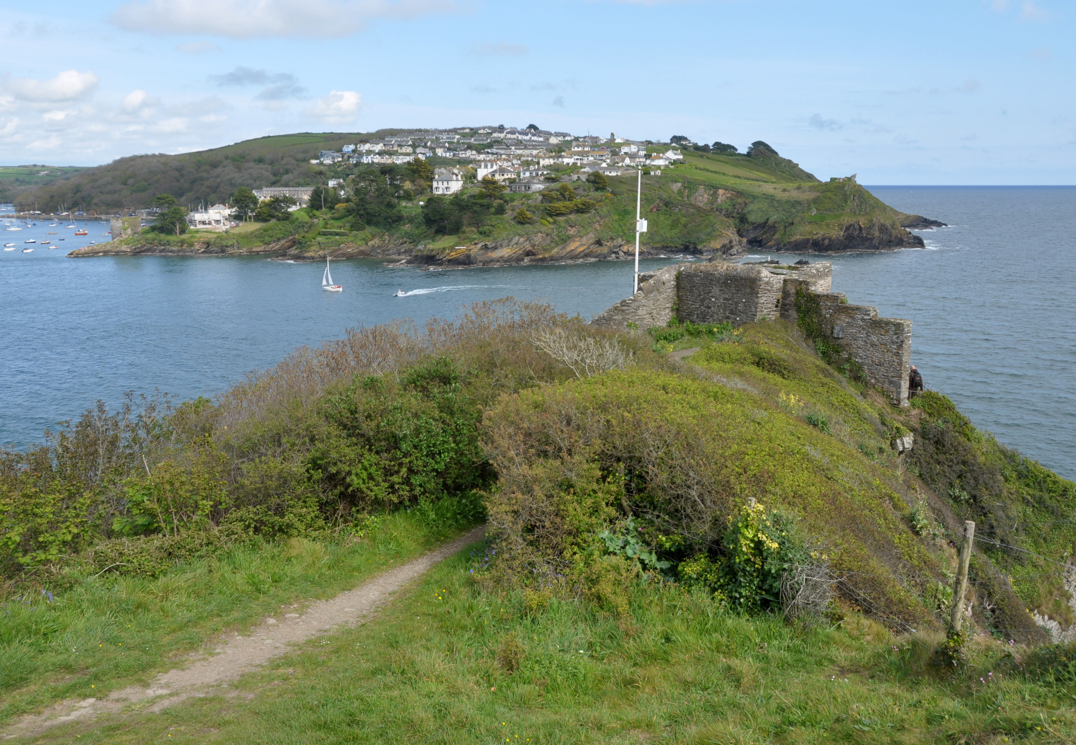 St Catherine's Castle, near Fowey in Cornwall, with Polruan on the far side of the estuary.